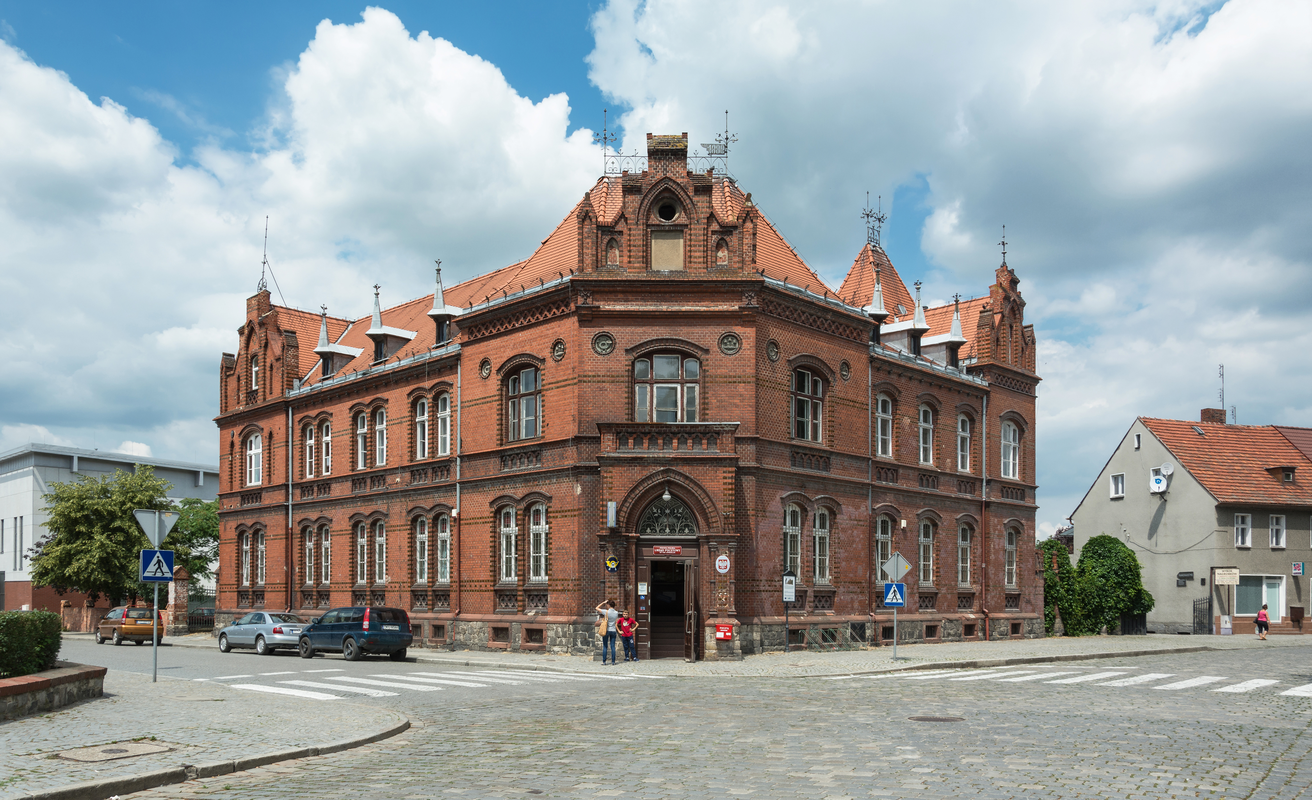 Post office in Strzelin